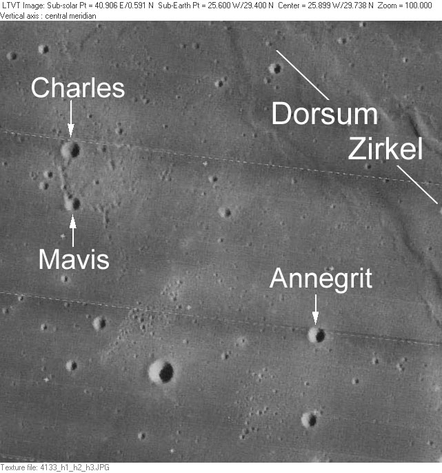 Moon craters Annegrit, Charles and Mavis. Detail from Lunar Orbiter IV-133H. High resolution scans from the USGS Lunar Orbiter Digitization Project remapped to a north-up aerial view by LTVT.